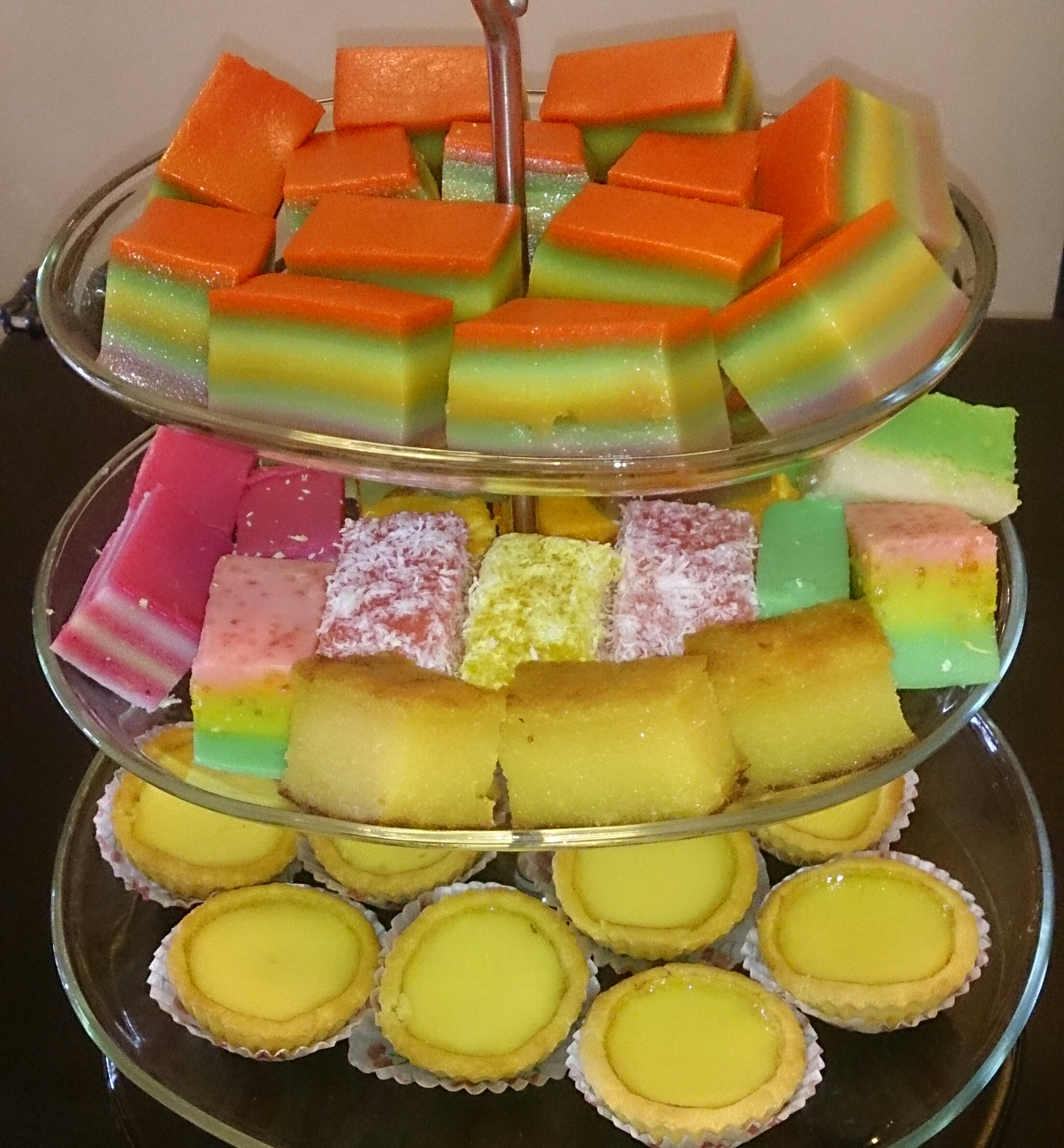 common snack in singapore amongst the chinese and malays